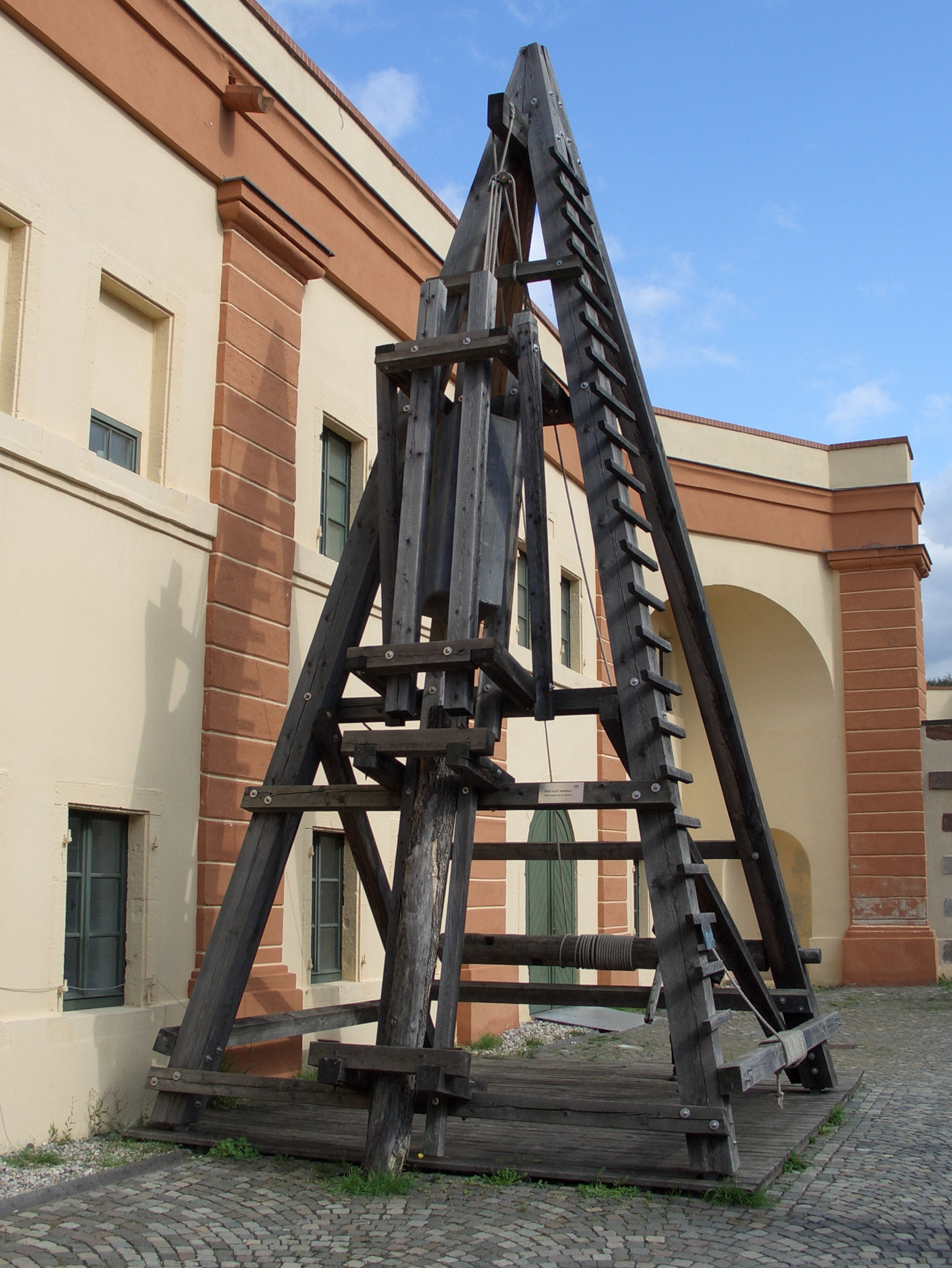 Faithful reconstruction of a Roman pile driver used during the construction of Caesar's Rhine bridges in 55 BC. Displayed at the Festung Ehrenbreitstein at Koblenz, Germany.